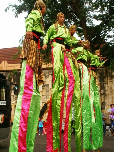 Emiliàn e rumagnòl: Dancers on stilts from Karawang Regency, West Java Province, Indonesia. Taken by Umar Khatab on April 15th 2007